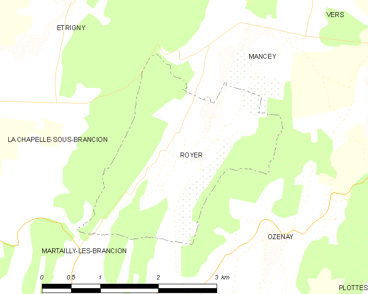 Map of French municipality